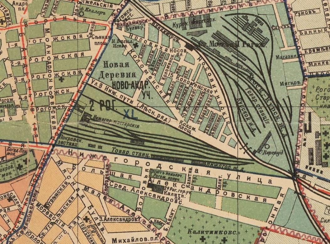 Map of the Nizhegorodsky Rail Terminal in Moscow